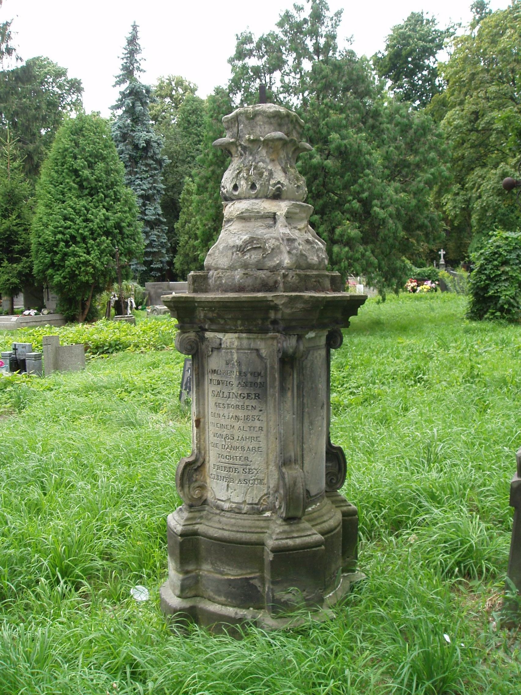 Jakub Salinger's tomb, lutheran cemetery in Warsaw